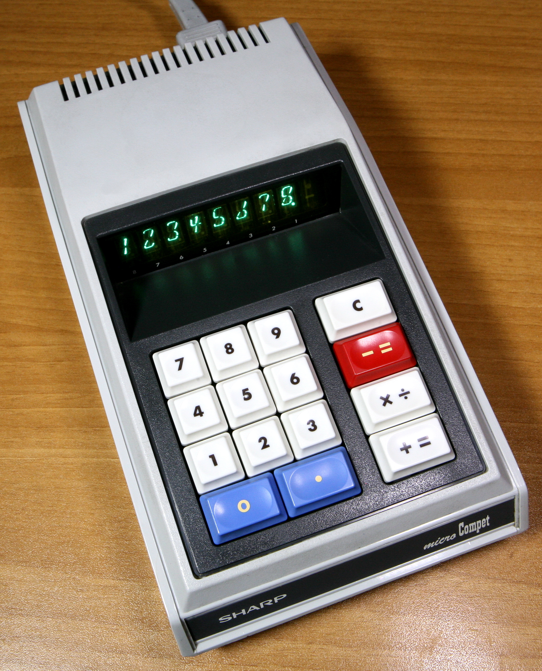 The Sharp QT-8D "Micro Compet" has the distinction of being recognized as the first electronic calculator marketed to be implemented using MOS (Metal-Oxide Semiconductor) large-scale integrated circuits.